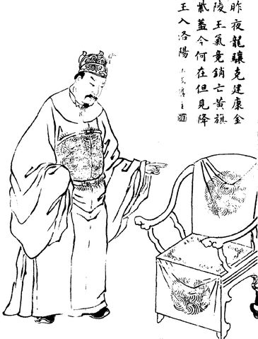 Qing dynasty portrait of Sun Hao